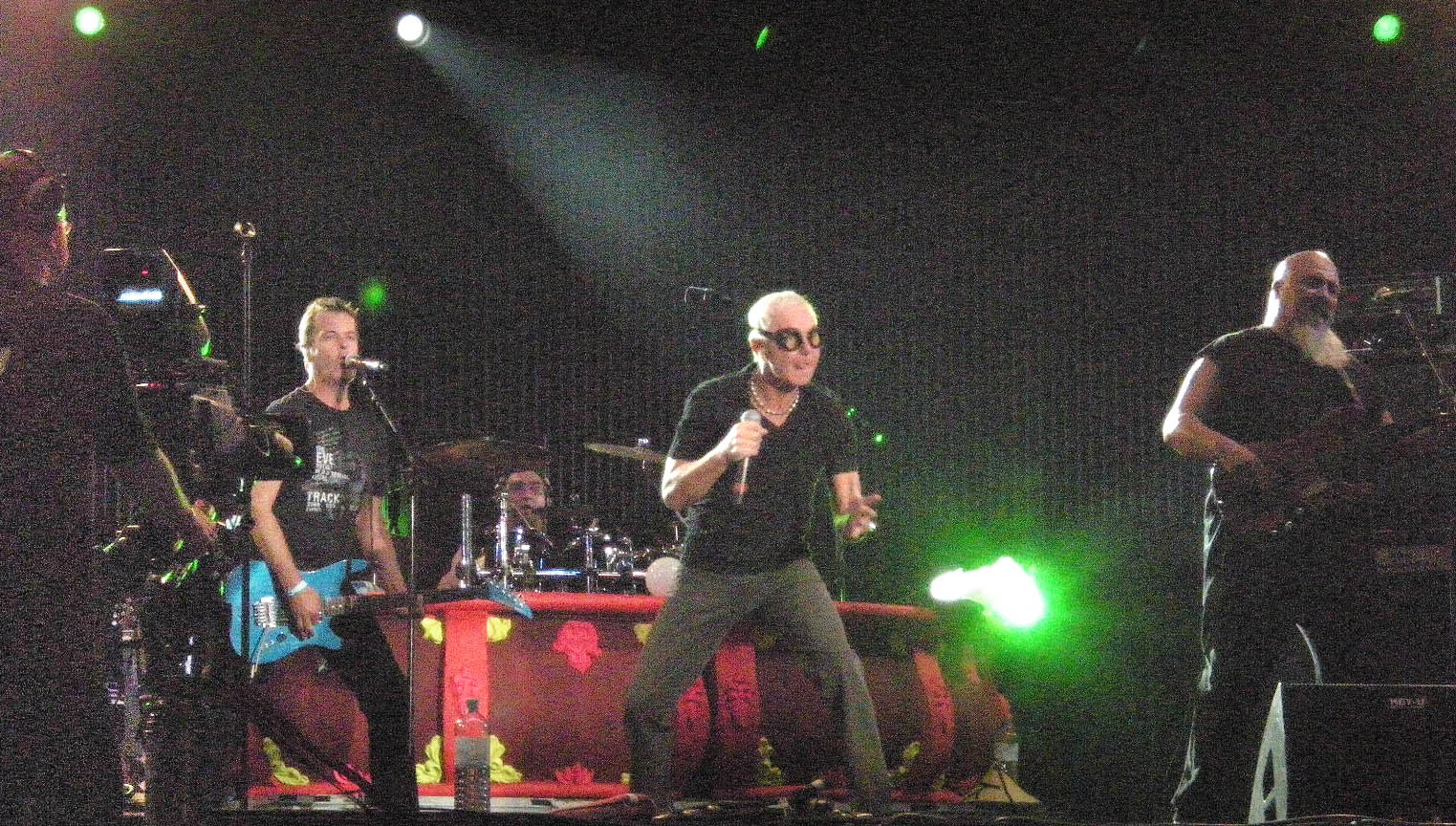 Erste Allgemeine Verunsicherung in Vienna, Austria, Donauinselfest 2008.